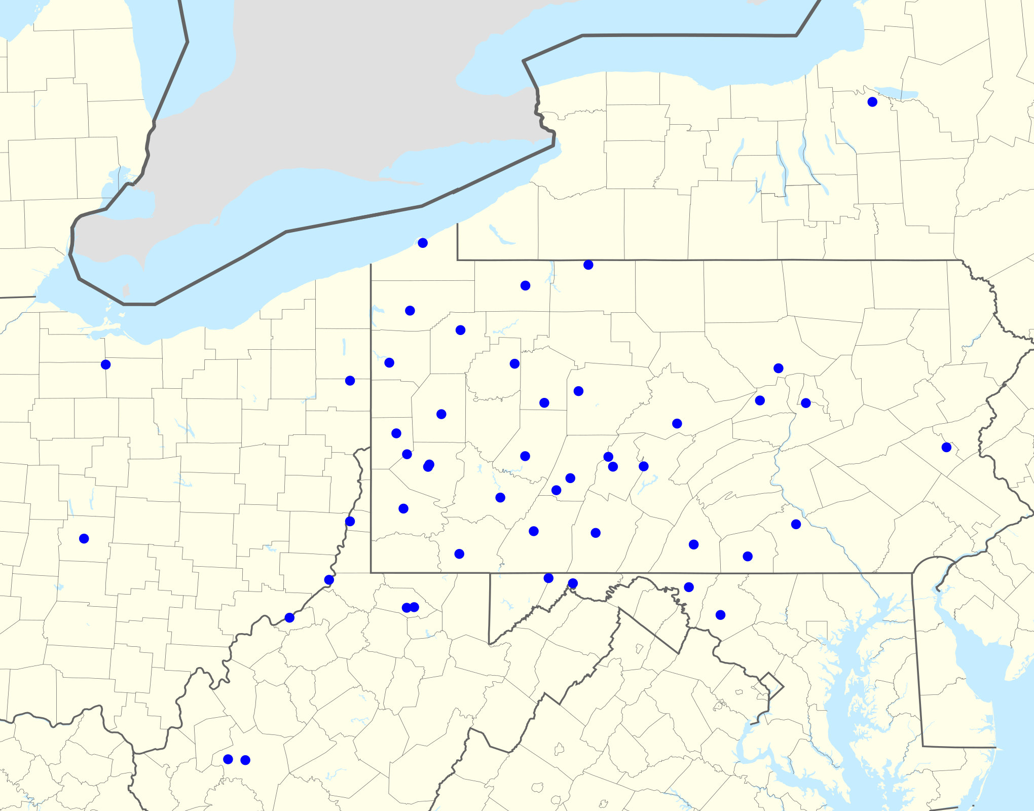 Steelers radio network, 2015. Not pictured: WRXZ, Myrtle Beach, SC.